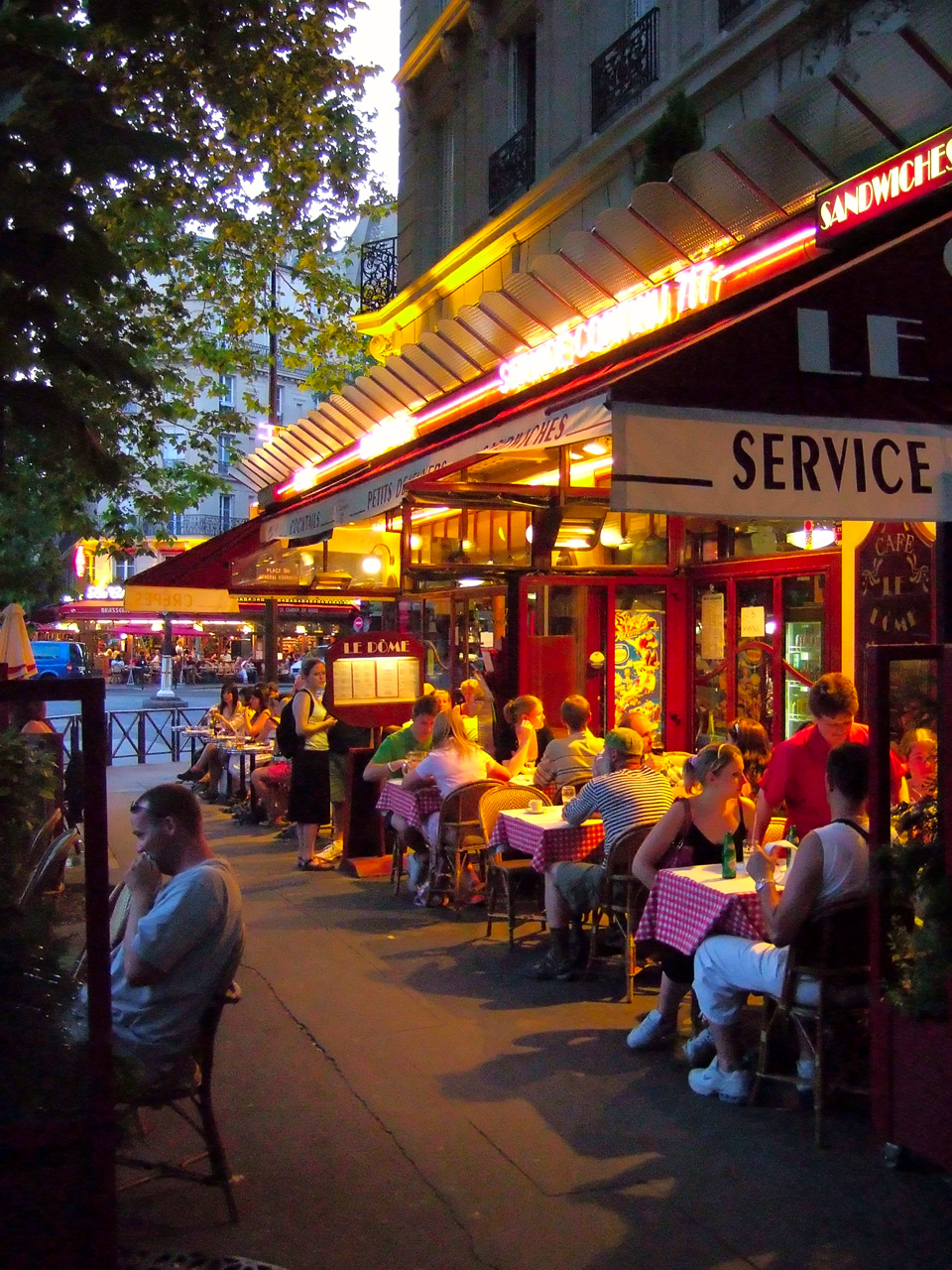 Paris Cafe near the Eiffel Tower (Café Le Dôme, 47 Avenue de la Bourdonnais, VIIe arrondissement) at dusk. Fuji F11 Camera at ISO 1600.